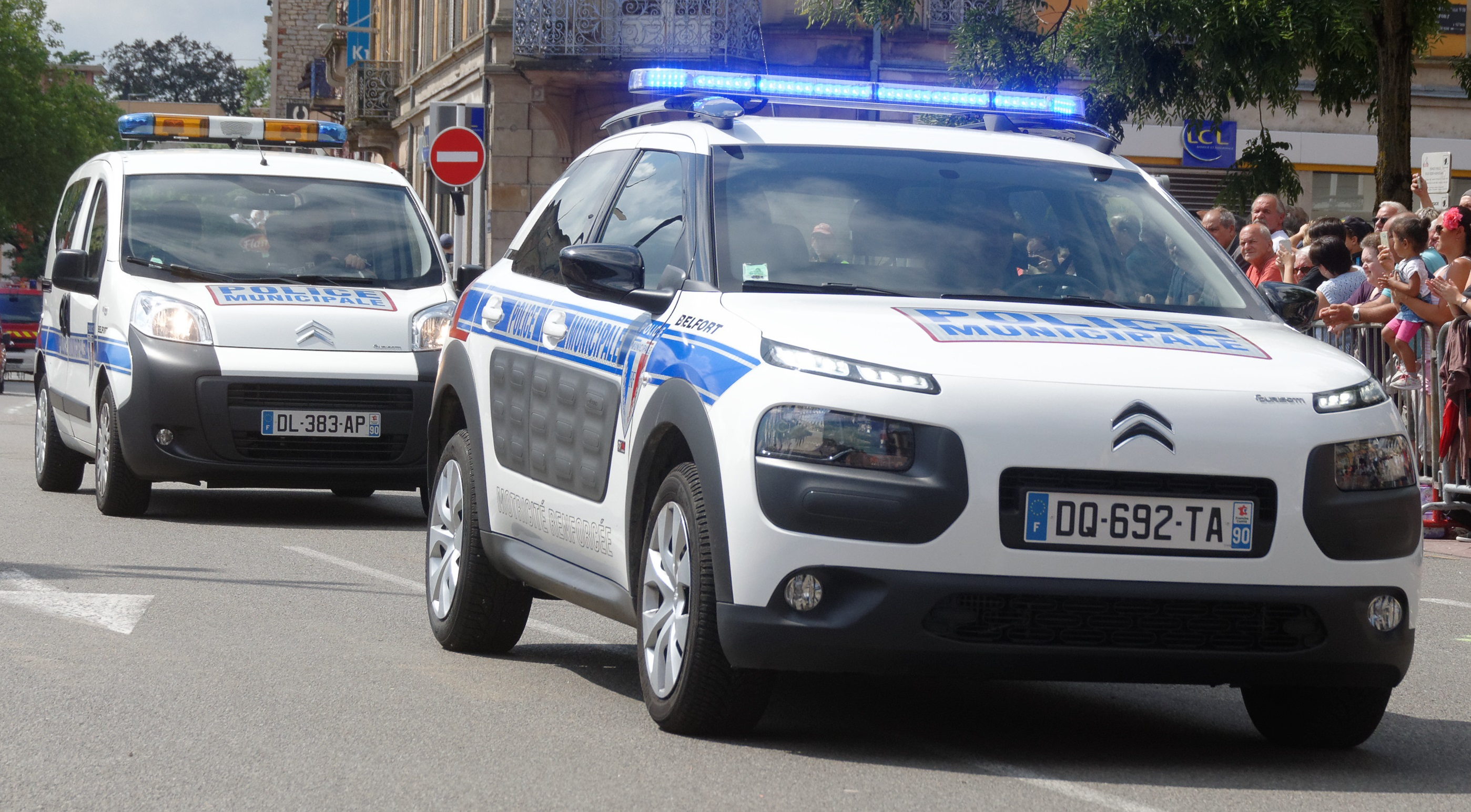 Voitures de la police municipale de Belfort lors du défilé de la Fête nationale.